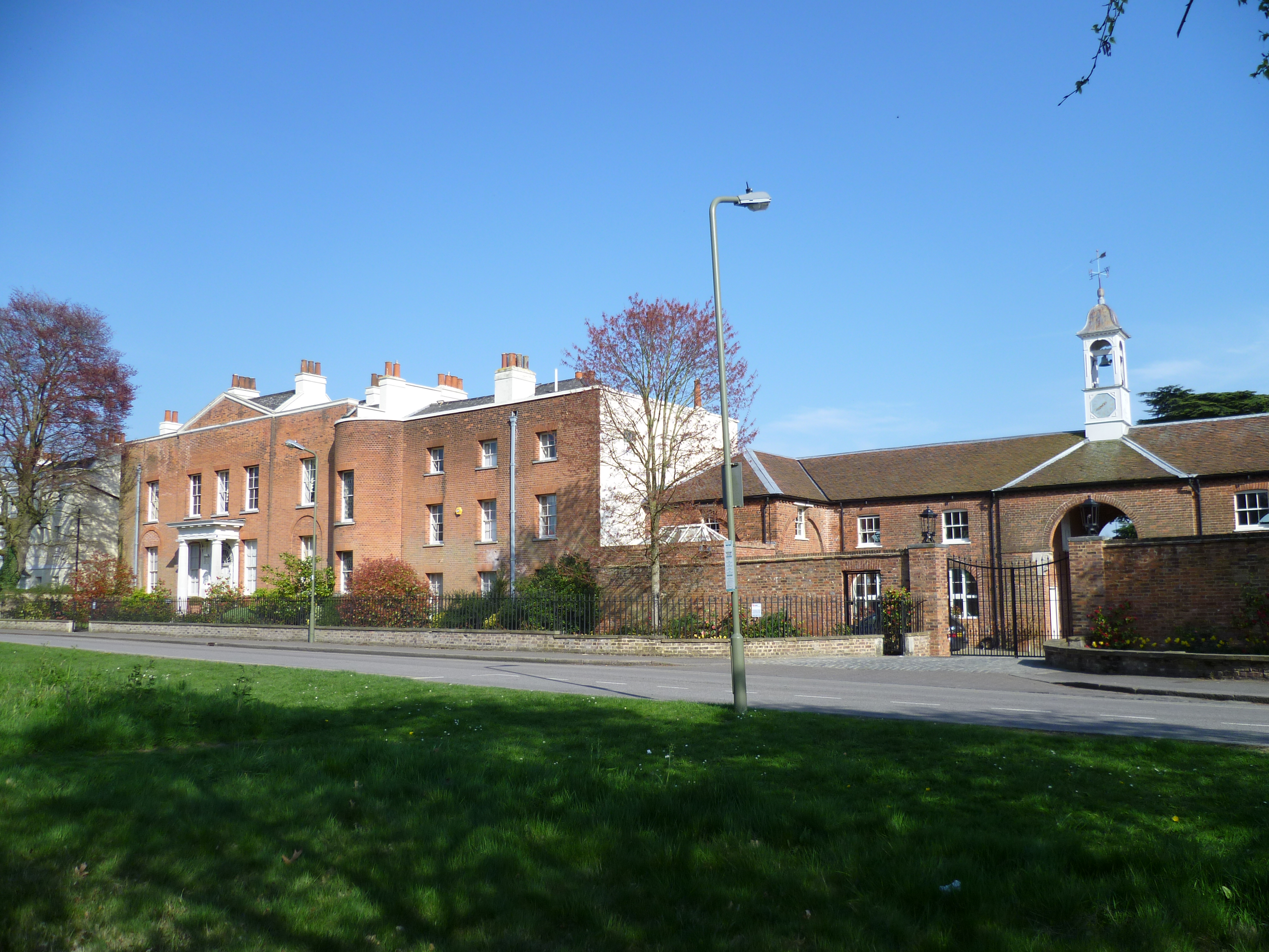 Hadley Green Road houses